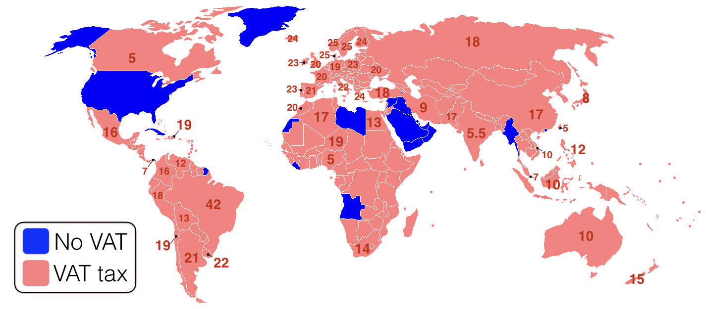 VAT tax map